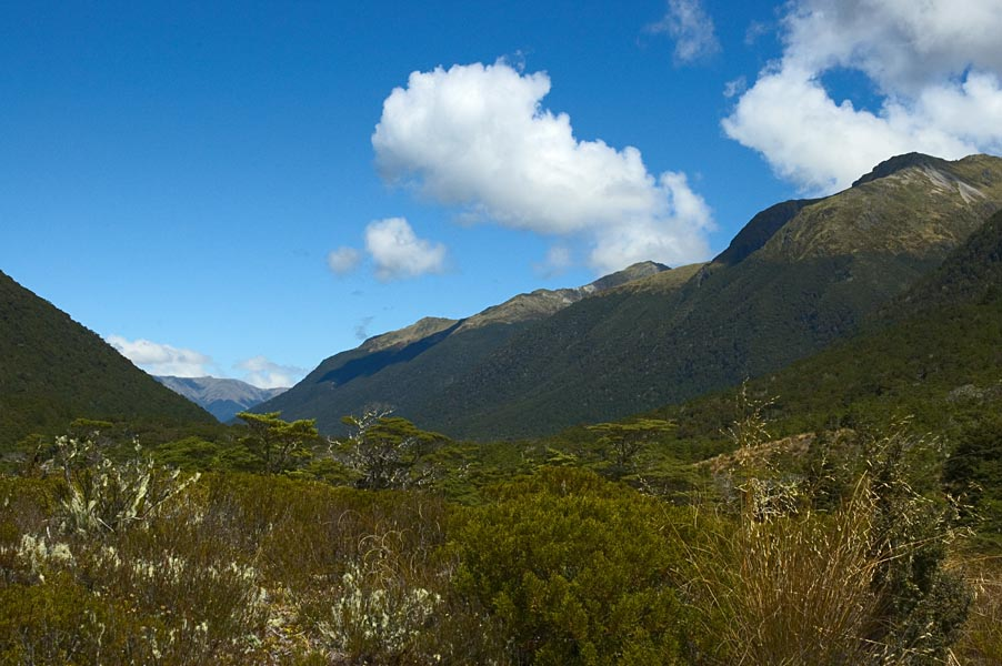 Lewis Pass: A mountain pass on the south island of New Zealand. Photograph by James Shook, who retains copyright and releases the image under the license shown below.